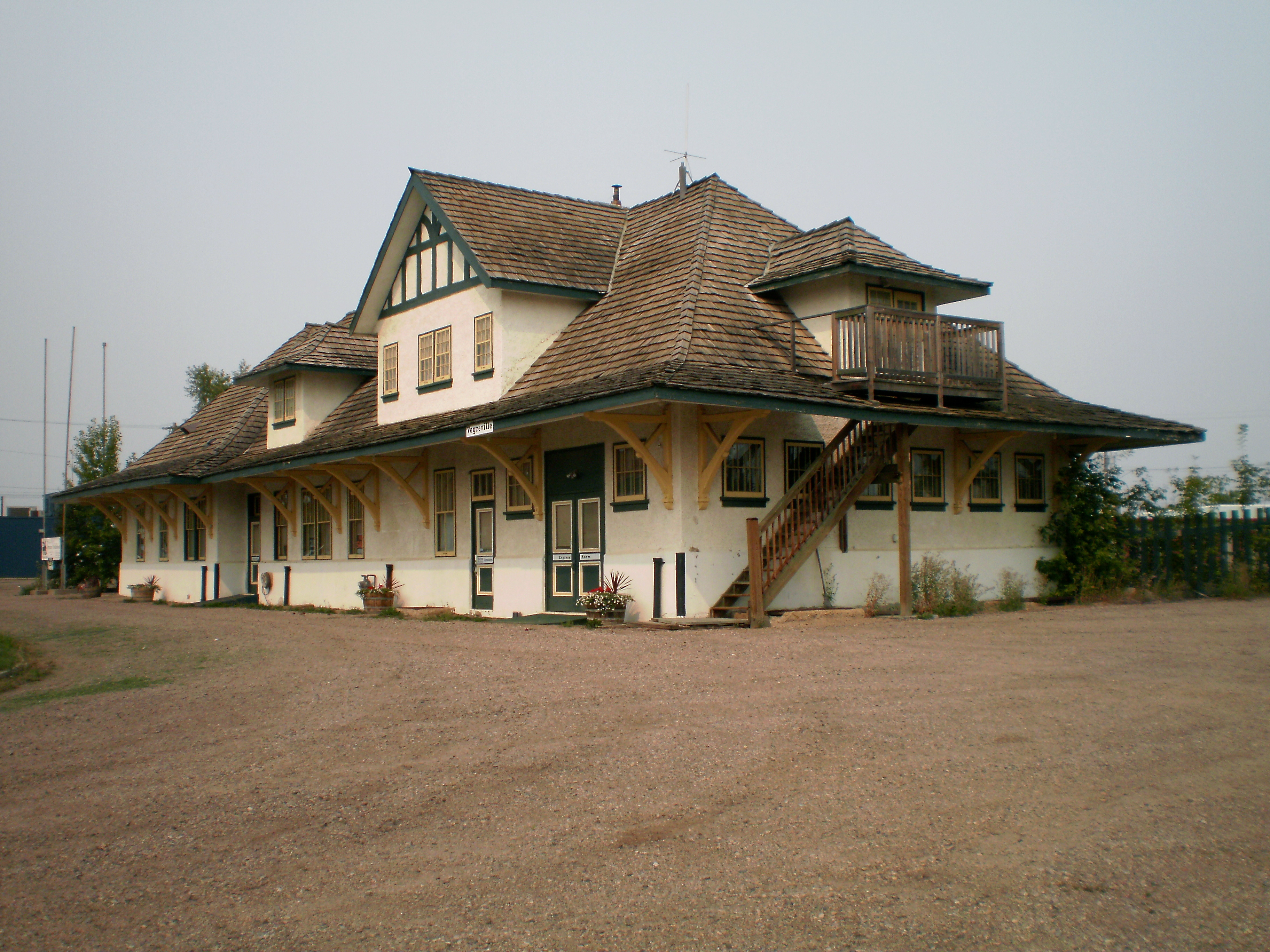 Old train station in Vegreville, Alberta.